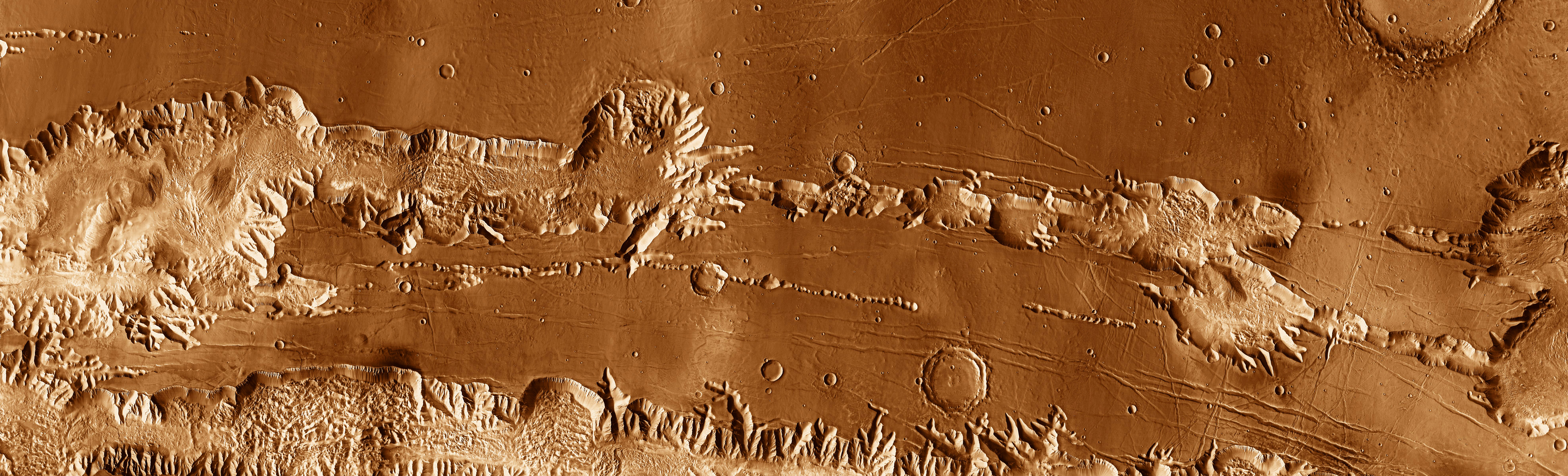 View of Tithonium Chasma, with parts of Ius and Candor chasmata visible at the bottom and far right, respectively, parts of the enormous Valles Marineris canyon system on Mars. This image was obtained by cropping a massive 23,711 × 11,856 pixel mosaic of NASA images, and adjusting in hue and saturation. The original caption for the mosaic reads in part as follows: This mosaic image of Valles Marineris - colored to resemble the martian surface - comes from the Thermal Emission Imaging System (THEMIS), a visible-light and infrared-sensing camera on NASA's Mars Odyssey orbiter. Mars Odyssey was built by Lockheed Martin and the mission is operated by the Jet Propulsion Laboratory. Built from more than 500 daytime infrared photos, the mosaic shows the whole valley in more detail than any previous composite photo. Despite the valley's huge extent - including its western extension through Noctis Labyrinthus, it reaches some 3,000 kilometers (2,000 miles) long - the smallest details visible in the image are about the size of a football field: 100 meters (328 feet).